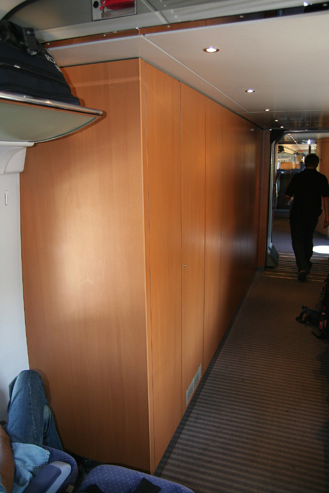 A switch case on the ICE 3MF that hosts technical components for the French TVM signalling system. This is one of the modifications that was undertaken on the ICE 3M trains during their refitting for France.